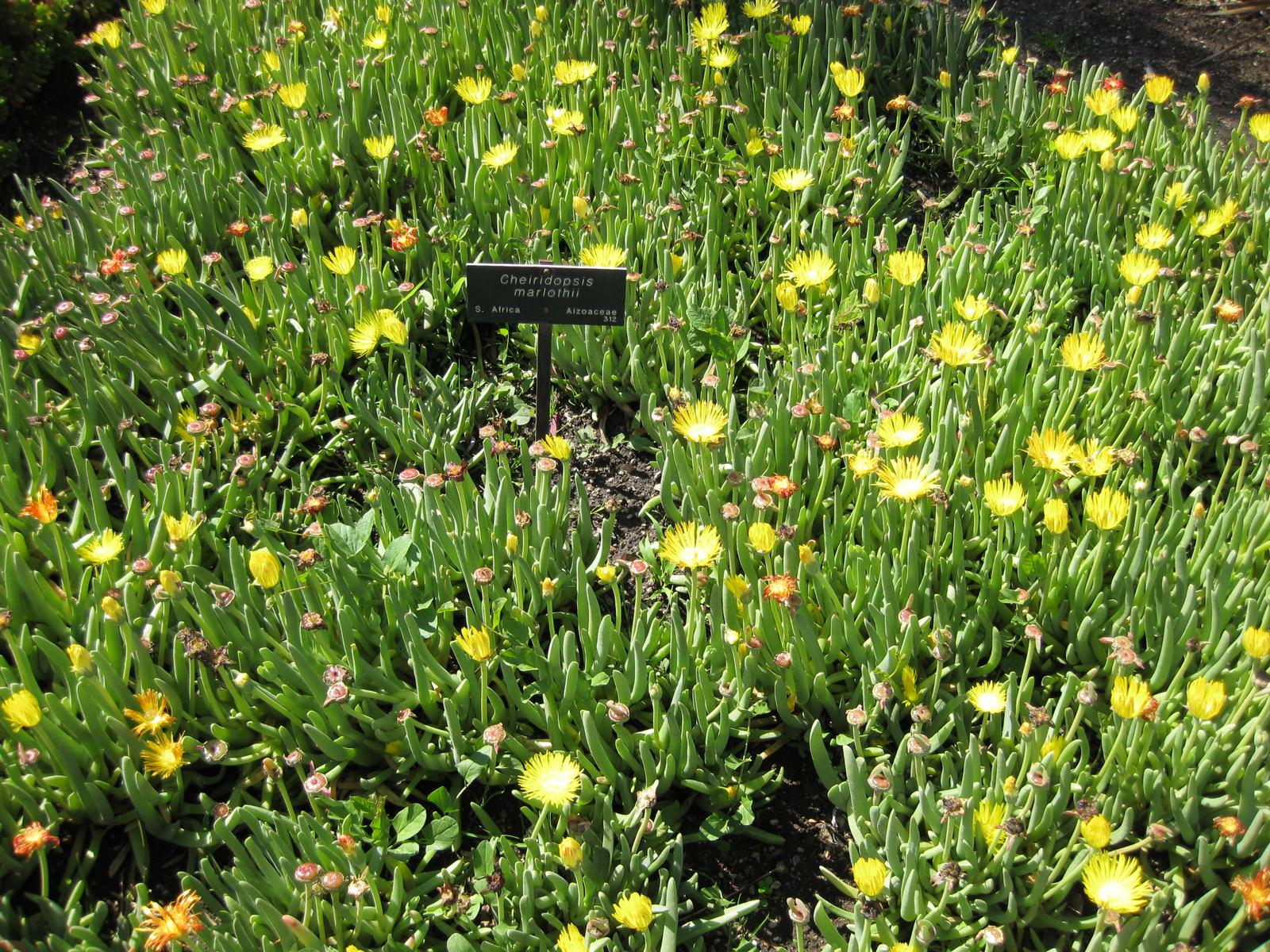 Photographed at Huntington Gardens (Los Angeles, California) in March